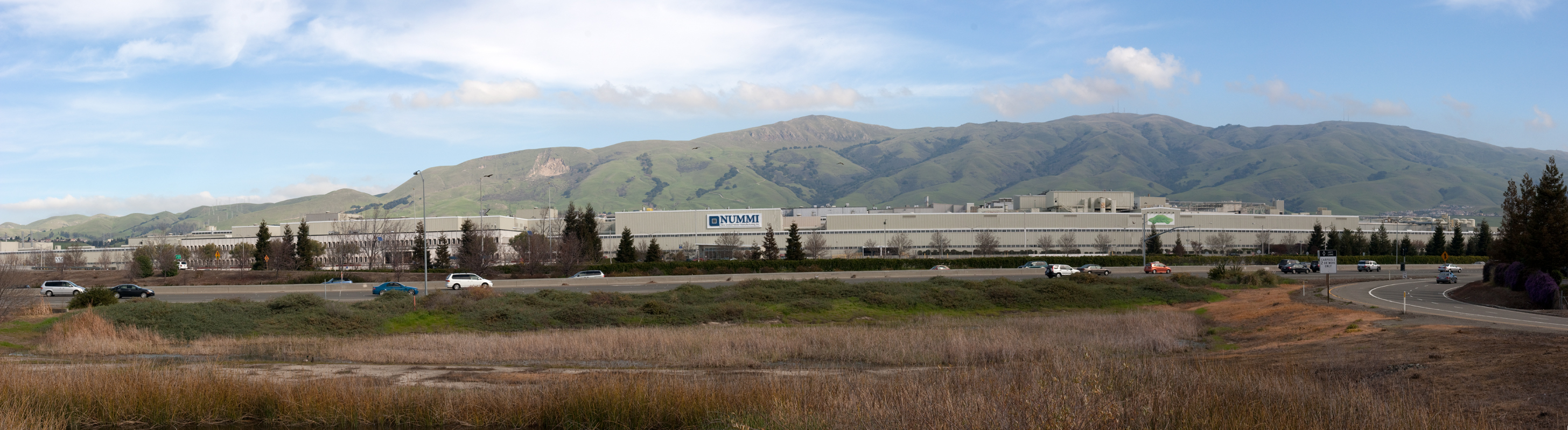 NUMMI plant in Fremont with Mission Peak behind it. (Joint venture between General Motors and Toyota.)